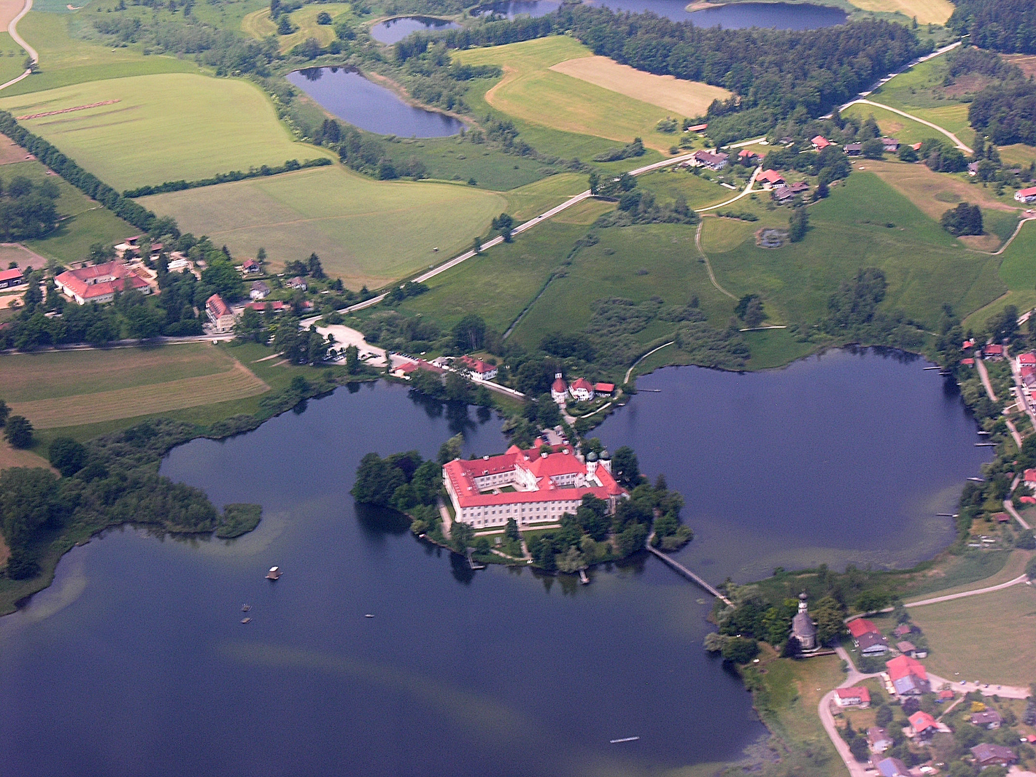 Germany, Bavaria, Seeon Monastry